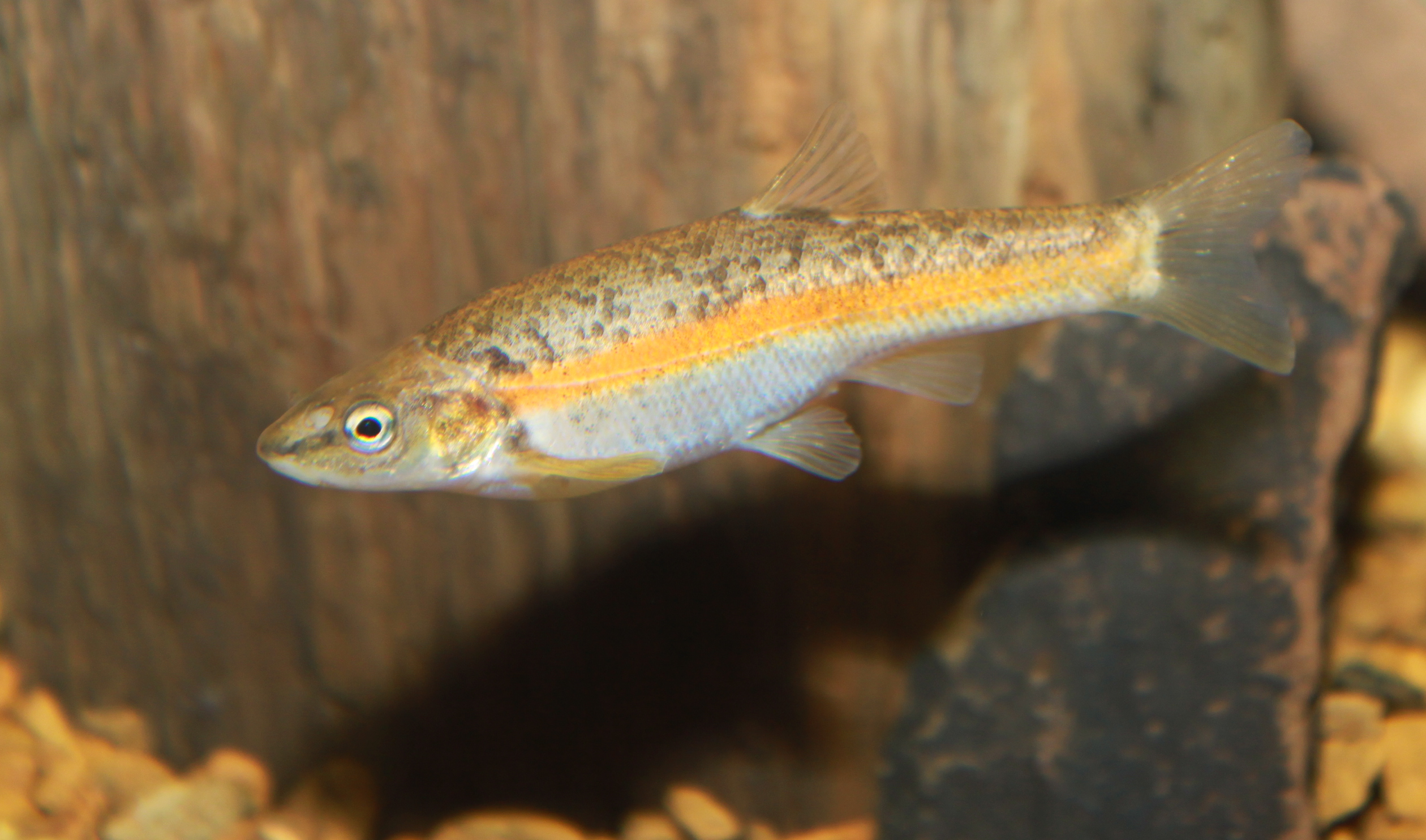 Blacknose Dace (Rhinichthys atratulus), Male in breeding colors